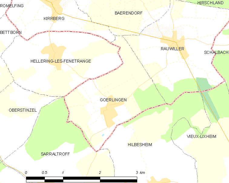 Map of French municipality